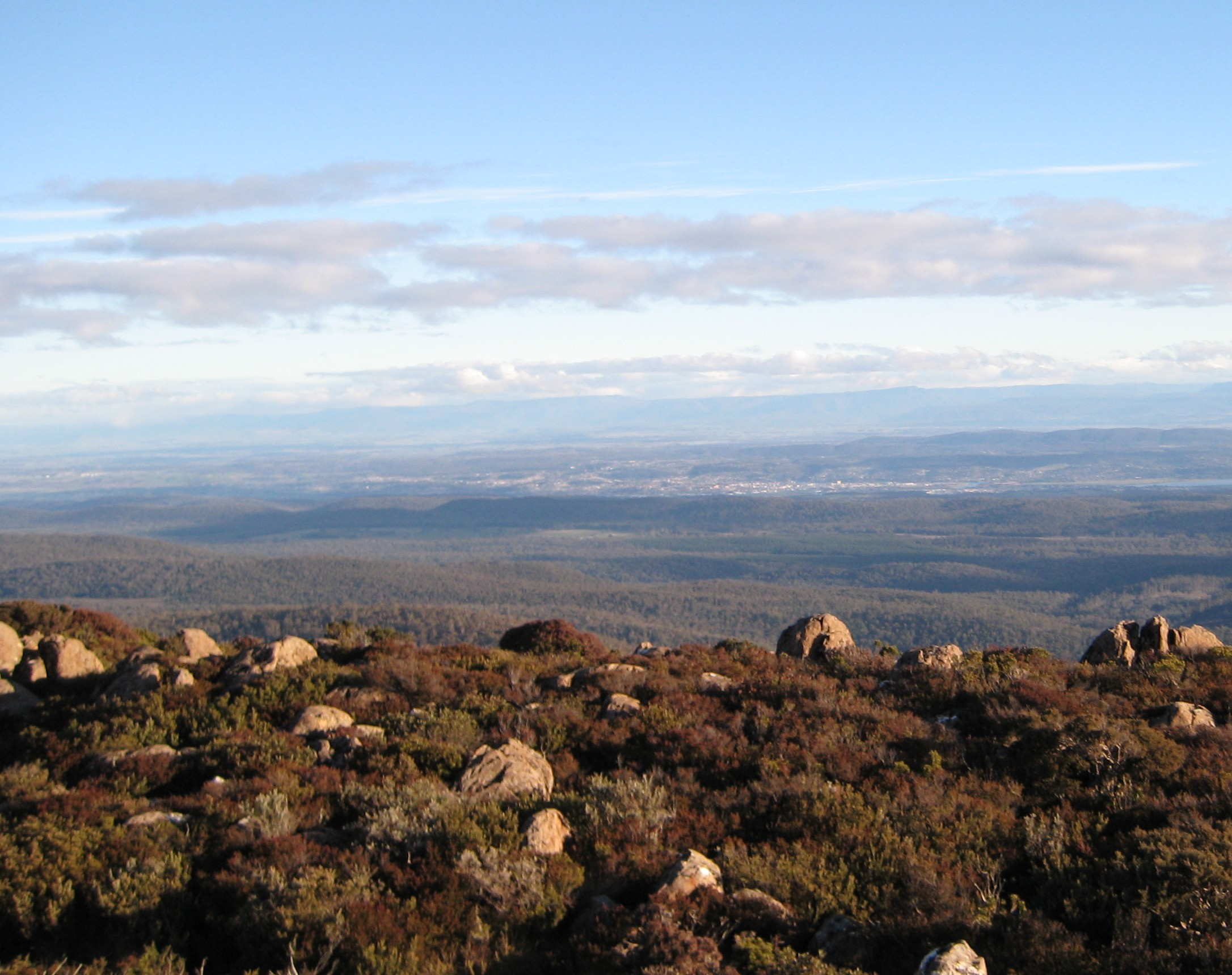 Launceston From Mouth Arthur